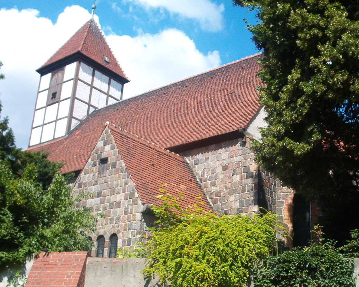 Old village Church in Berlin-Tempelhof